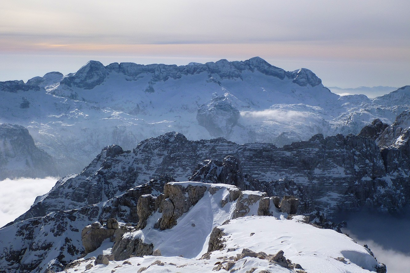 Canin